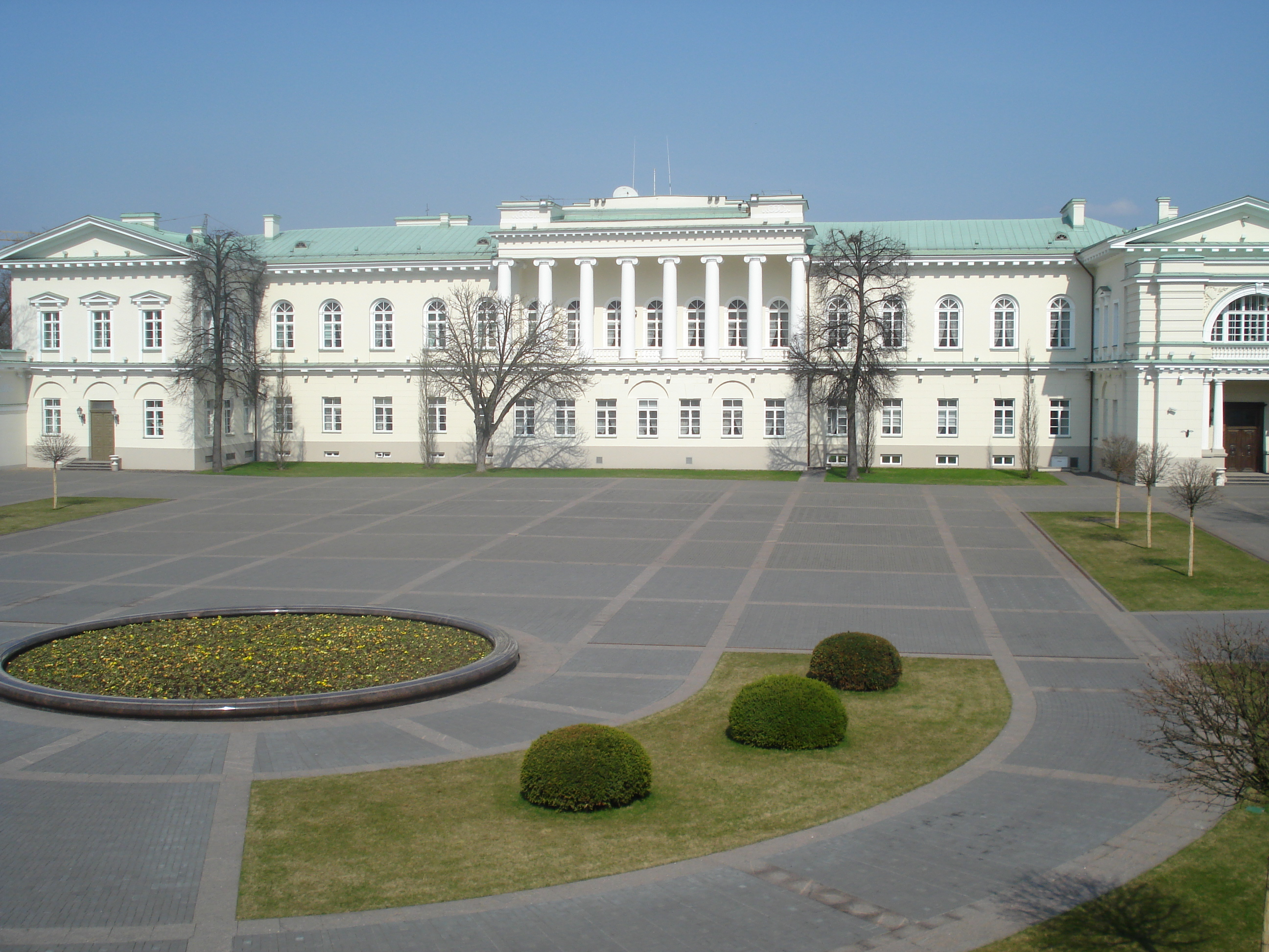 Backyard of the Presidential Palace in Vilnius